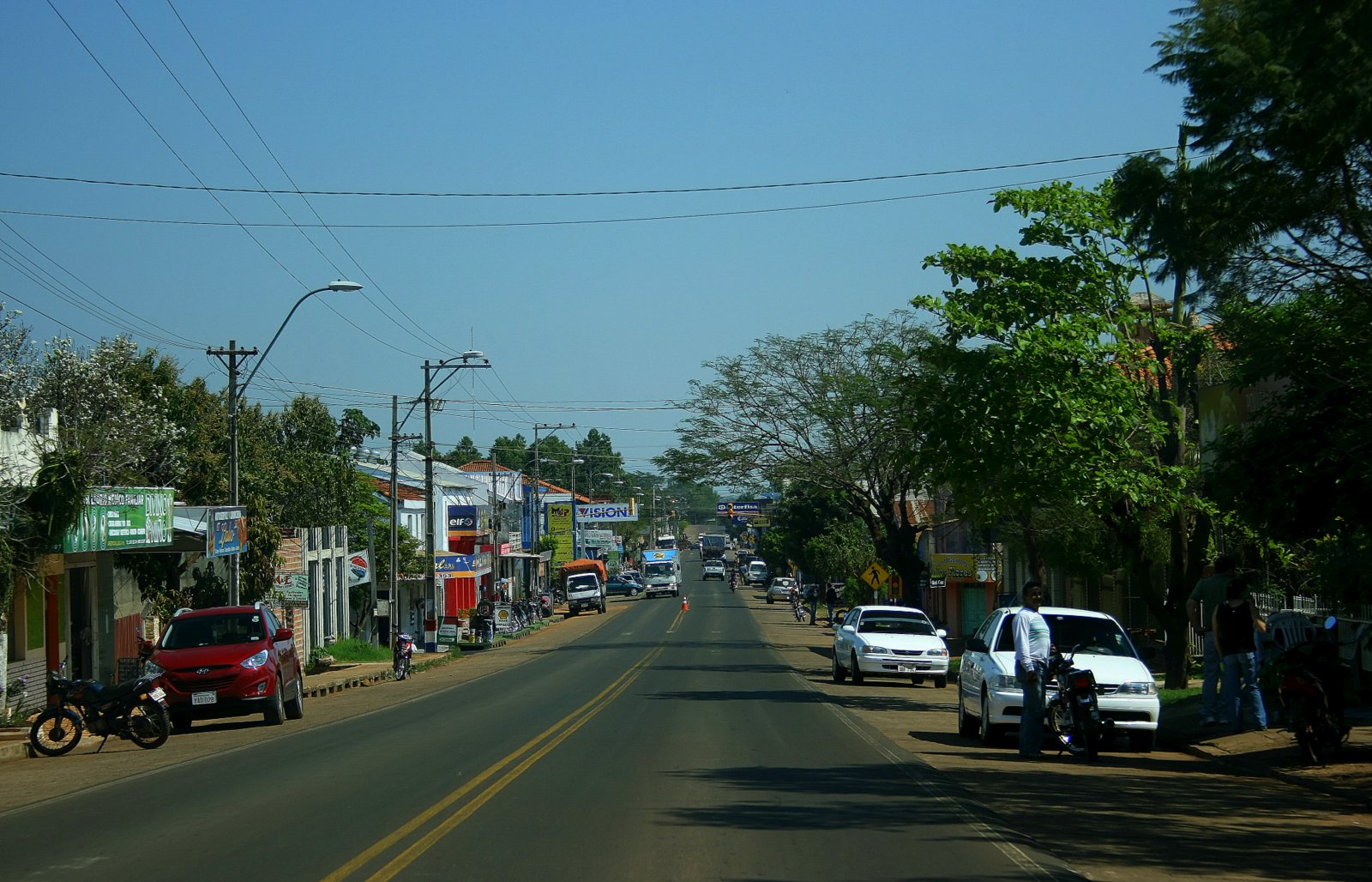 Route 1 passes through the city of Coronel Bogado.